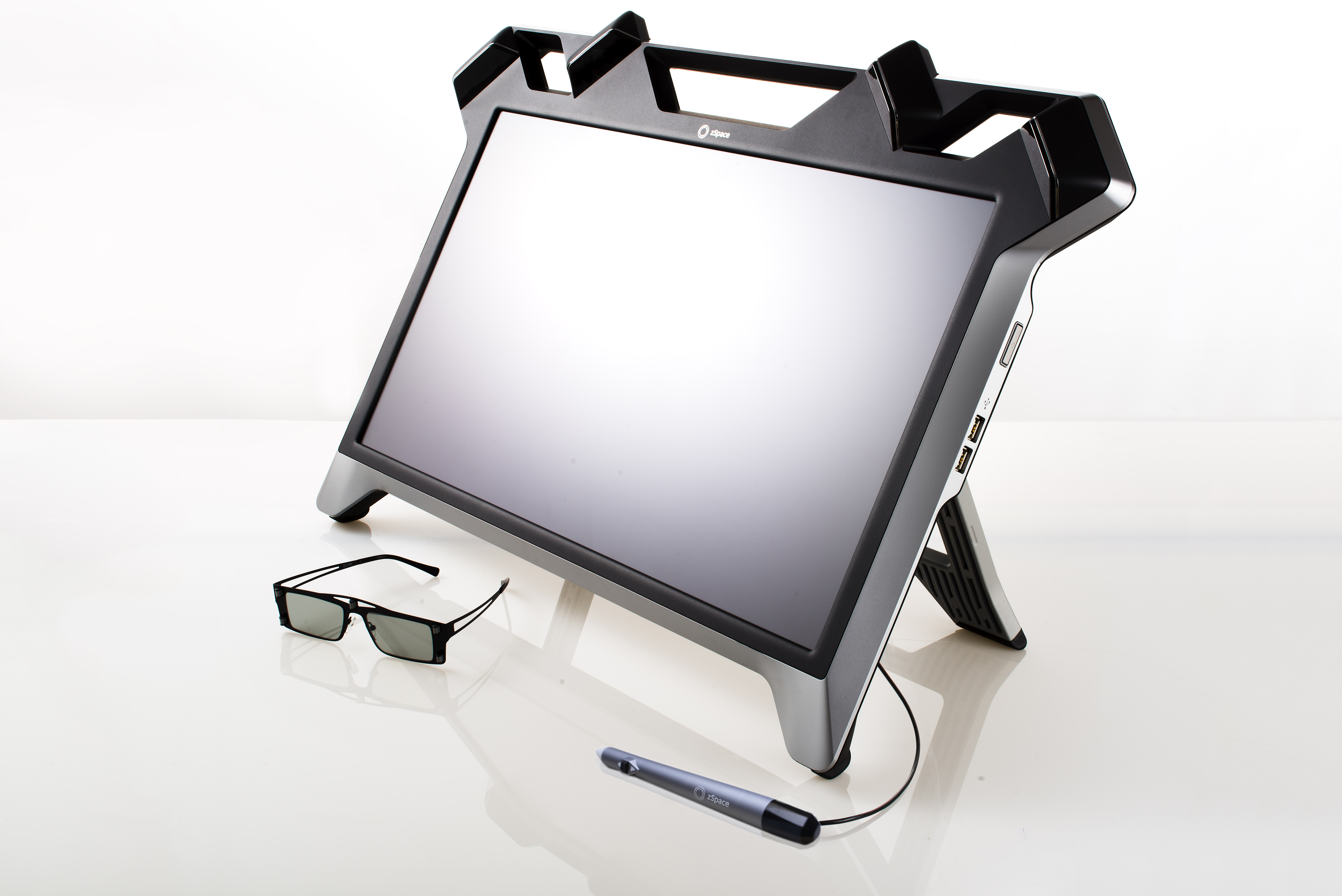 zSpace 200 display